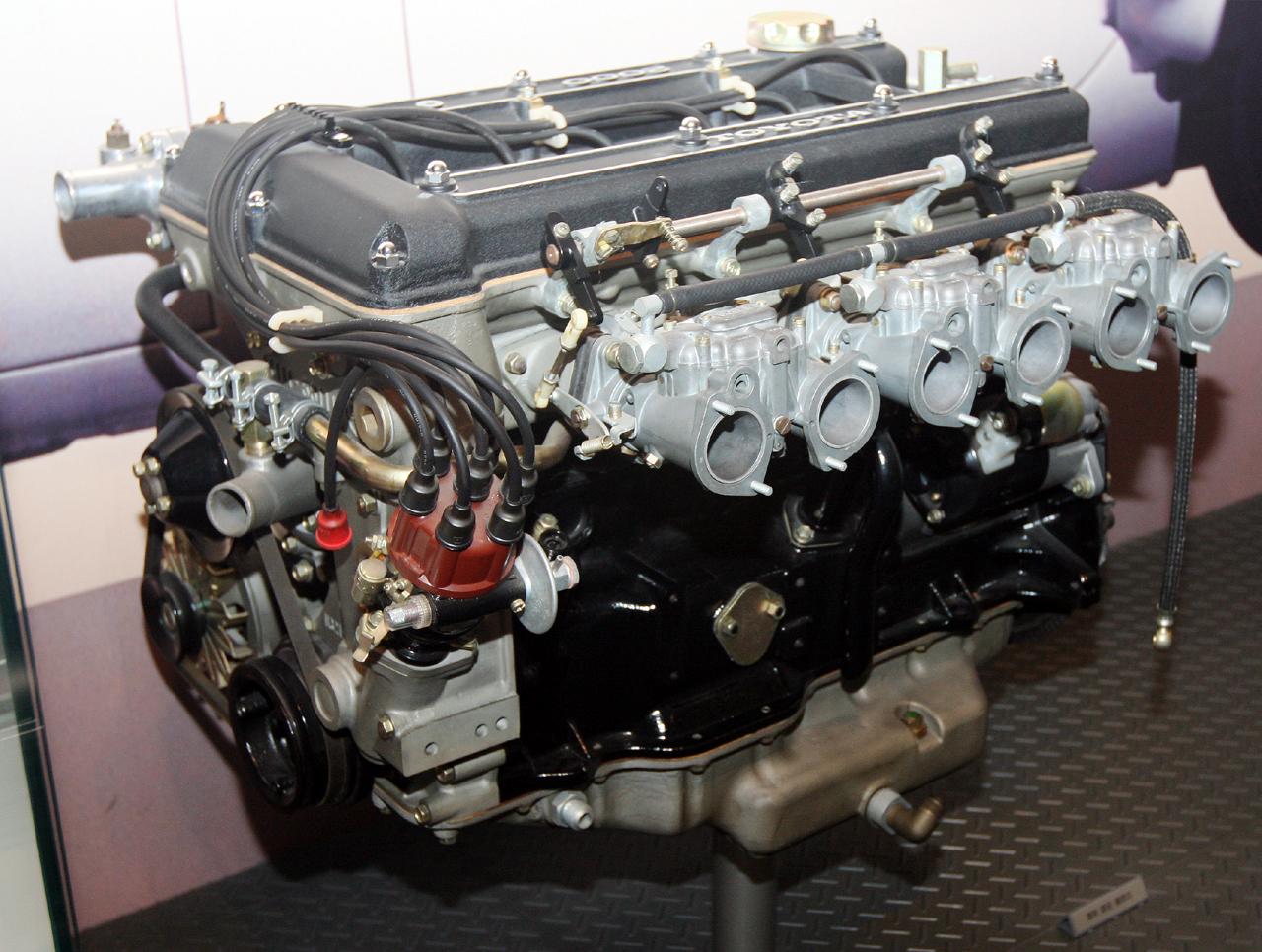 1967 Toyota 3M Type engine. L6 1,988cc.